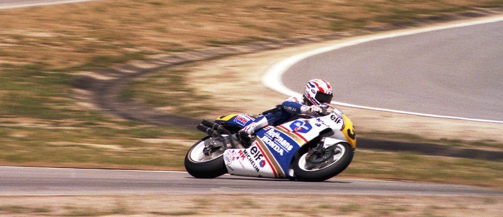 Taken at the 1990 MotoGP at Laguna Seca, California. Mick Doohan in his prime. Canon AE-1, Vivitar Series 1 zoom, Kodak Gold 200.